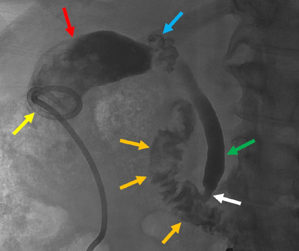 X-ray radiography with contrast of a percutaneous gallbladder drain in a 65-year-old African-American female who had received the drain because of gallstones with cholecystitis. It shows the pigtail catheter (yellow arrow) in a contrast-filled gallbladder (red arrow), where the filling defects are gallstones. A cholangiogram demonstrated a tortuous cystic duct (blue arrow). The common bile duct (green arrow) is mildly dilated but patent, with tapering (white arrow), but without obstruction. Contrast is seen extending into the duodenum (orange arrows), demonstrating open passage through the bile ducts.